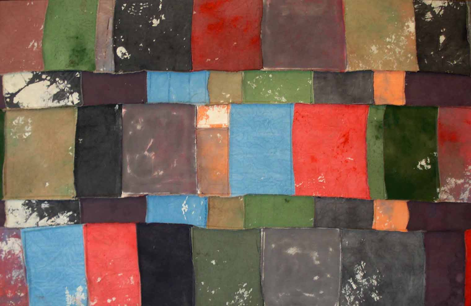 Nuvolo "Cucito a macchina"